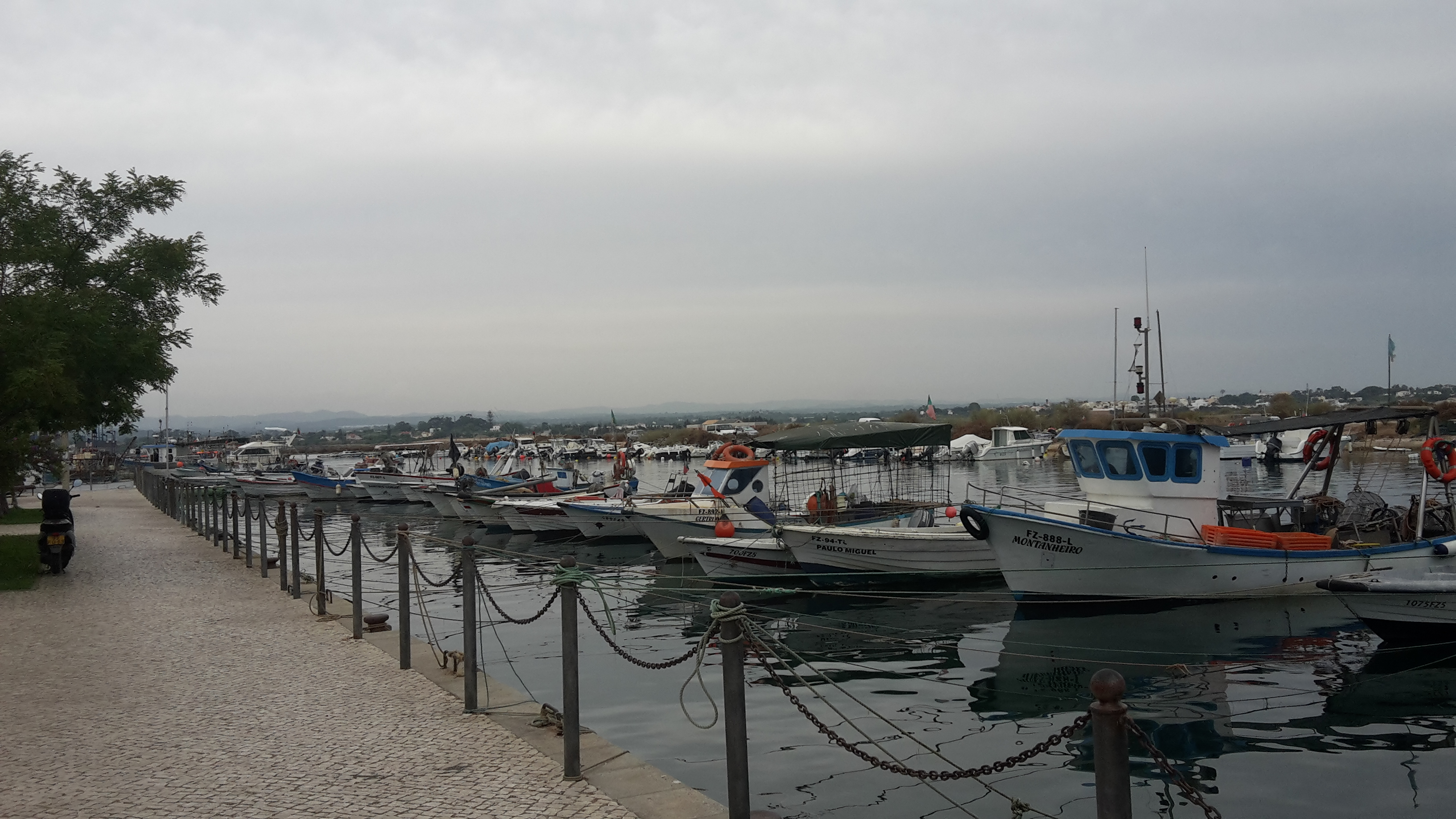 Fuseta Port